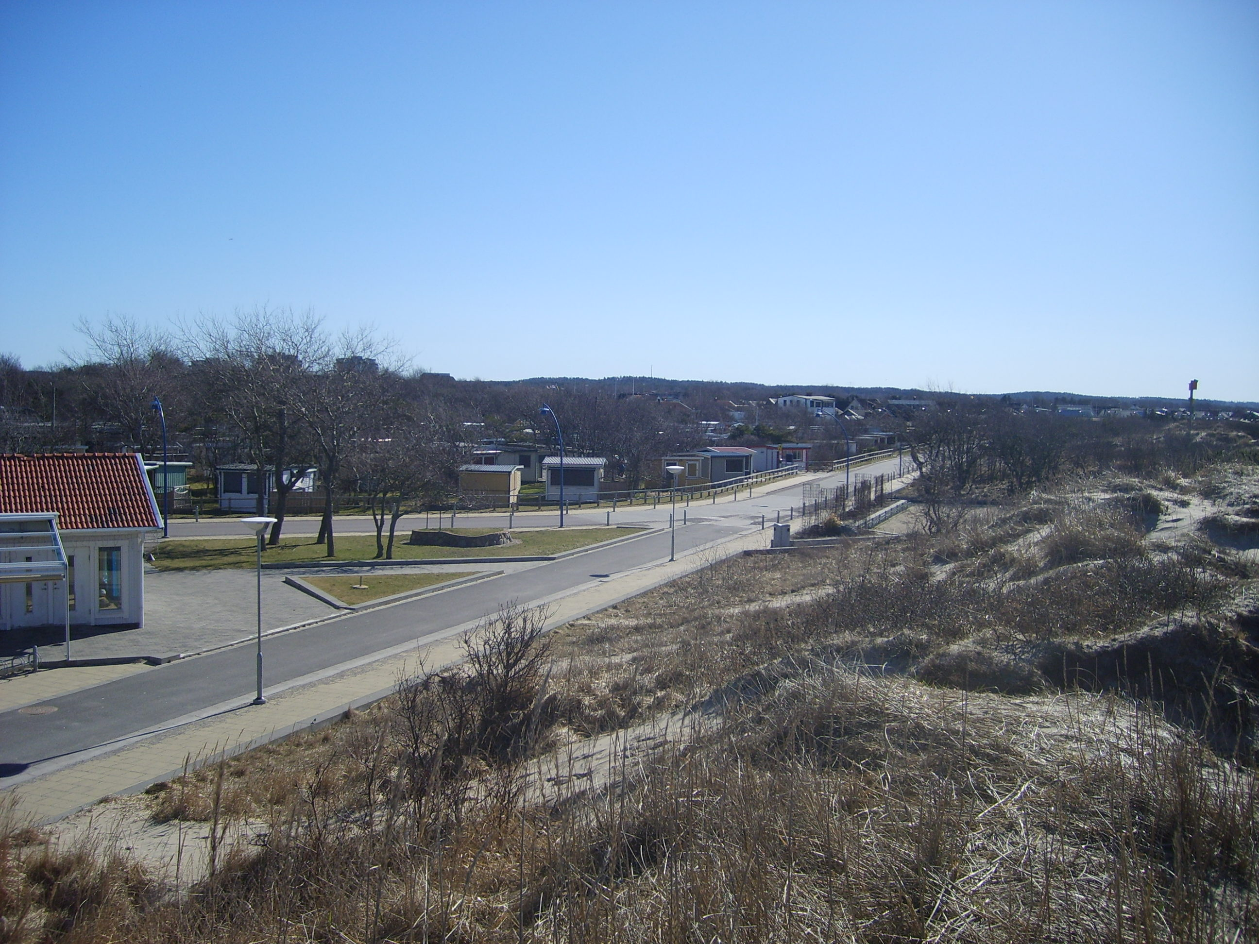 Sand dunes and a colony of summer houses in Skrea strand outside Falkenberg, Sweden